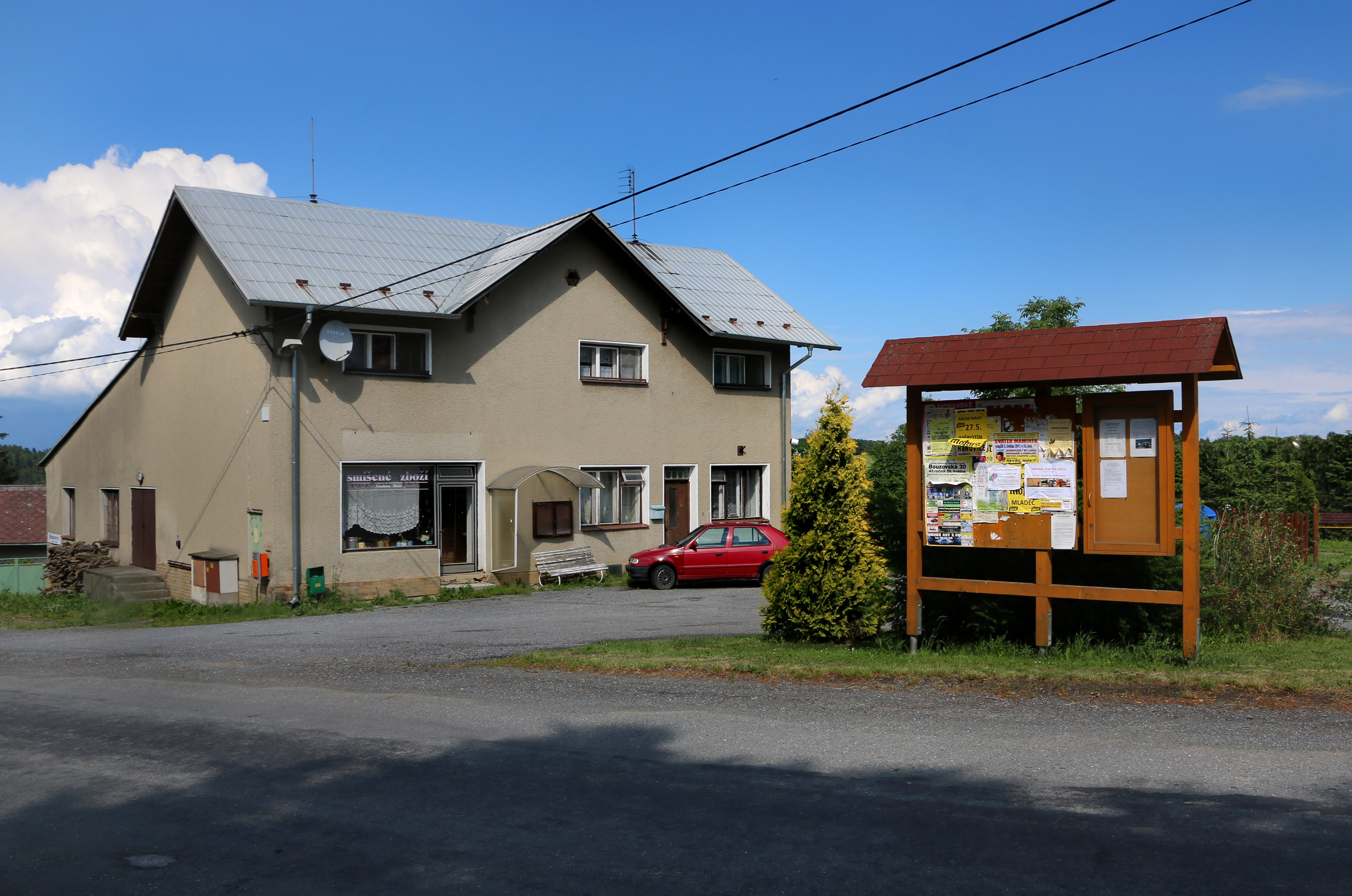 Common in Hradečná, part of Bílá Lhota, Czech Republic.